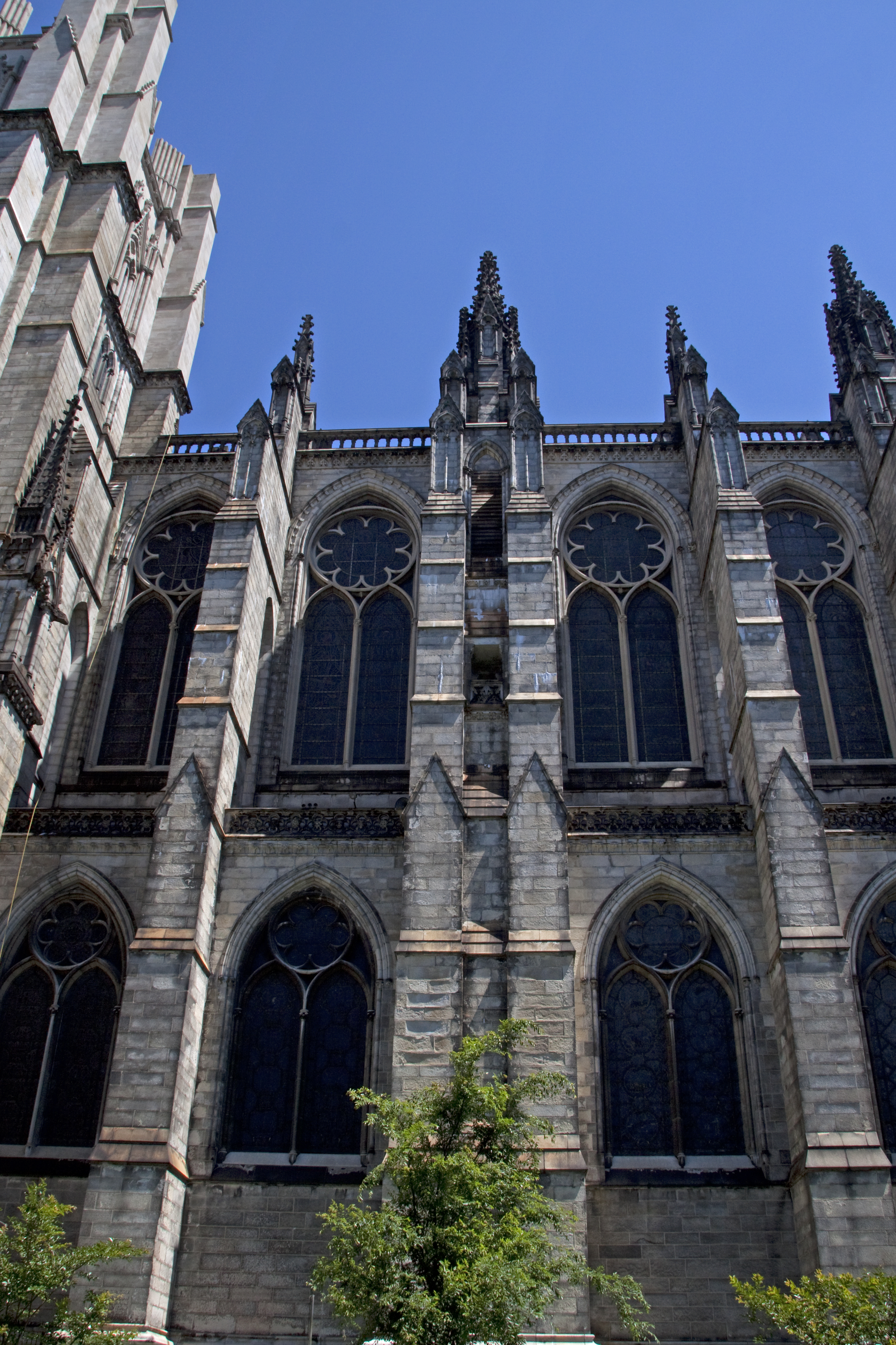 St John the Divine 4